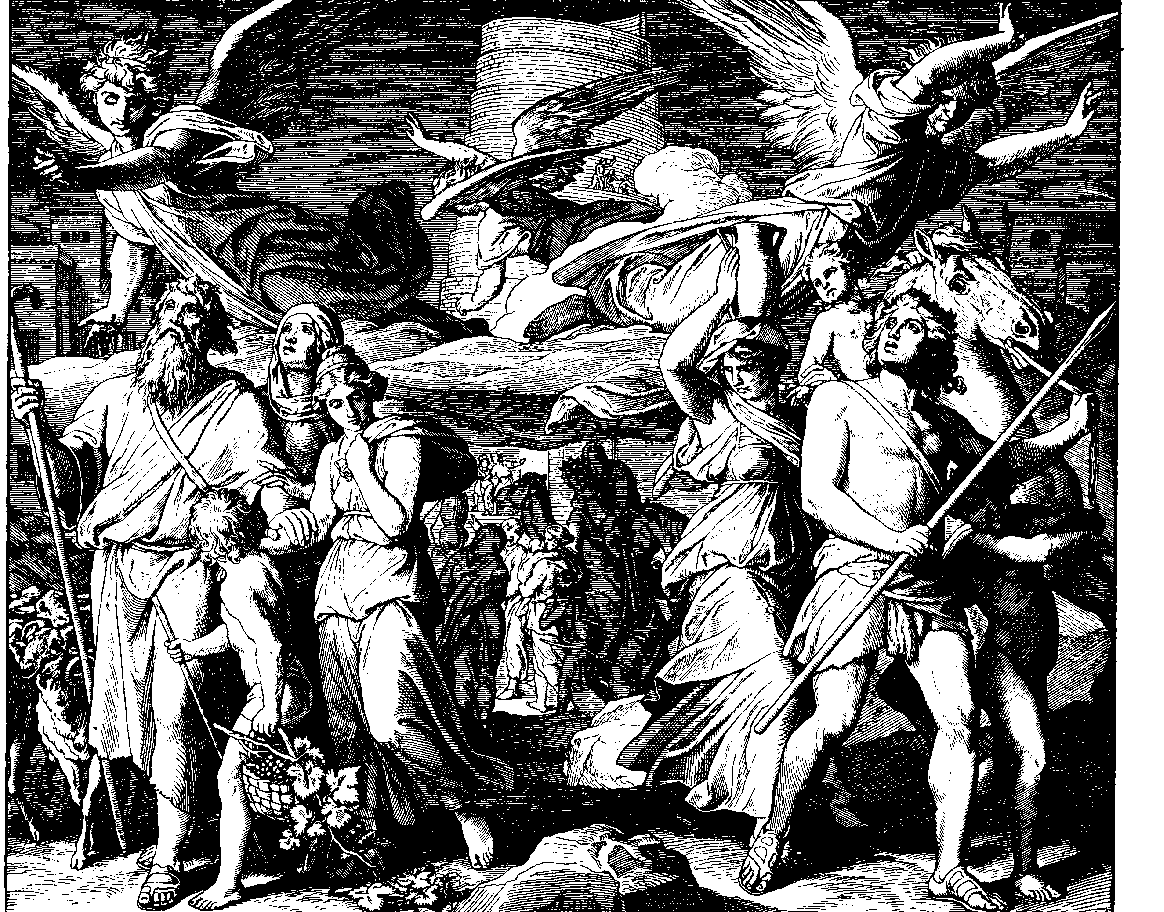 Woodcut for "Die Bibel in Bildern", 1860.